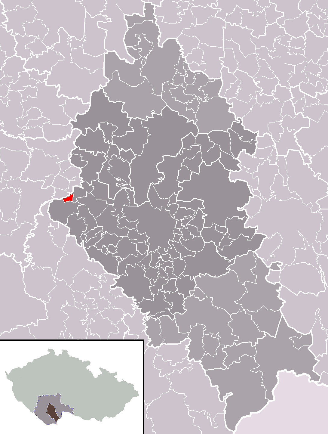 Location of Strýčice municipality within České Budějovice District and administrative area of České Budějovice as a Municipality with Extended Competence.